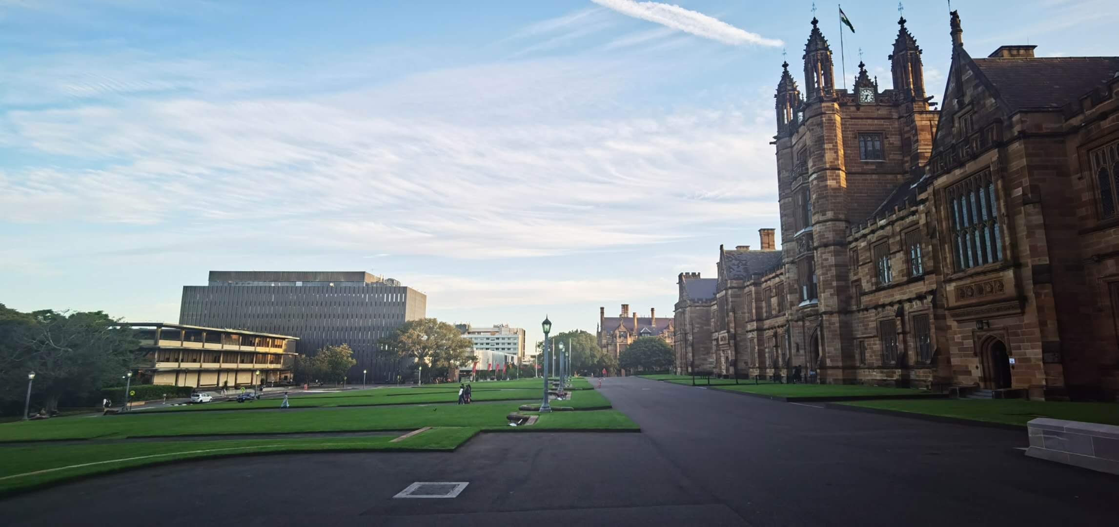 One side of the University of Sydney Quadrangle.